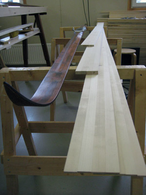 ski